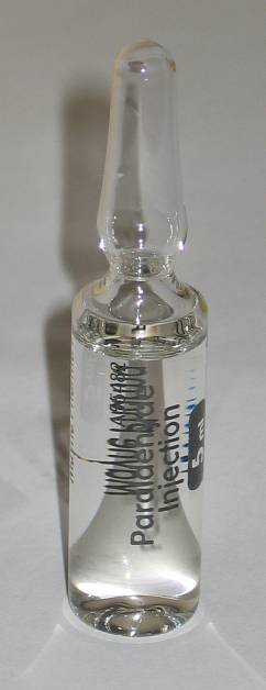 A glass ampoule of 5ml Paraldehyde 100% v/v and Hydroquinone. Manufactured by Mayne Pharma Plc. For intramuscular injection or rectal administration. Mayne Pharma Plc. have now discontinued the manufacturing of this product.